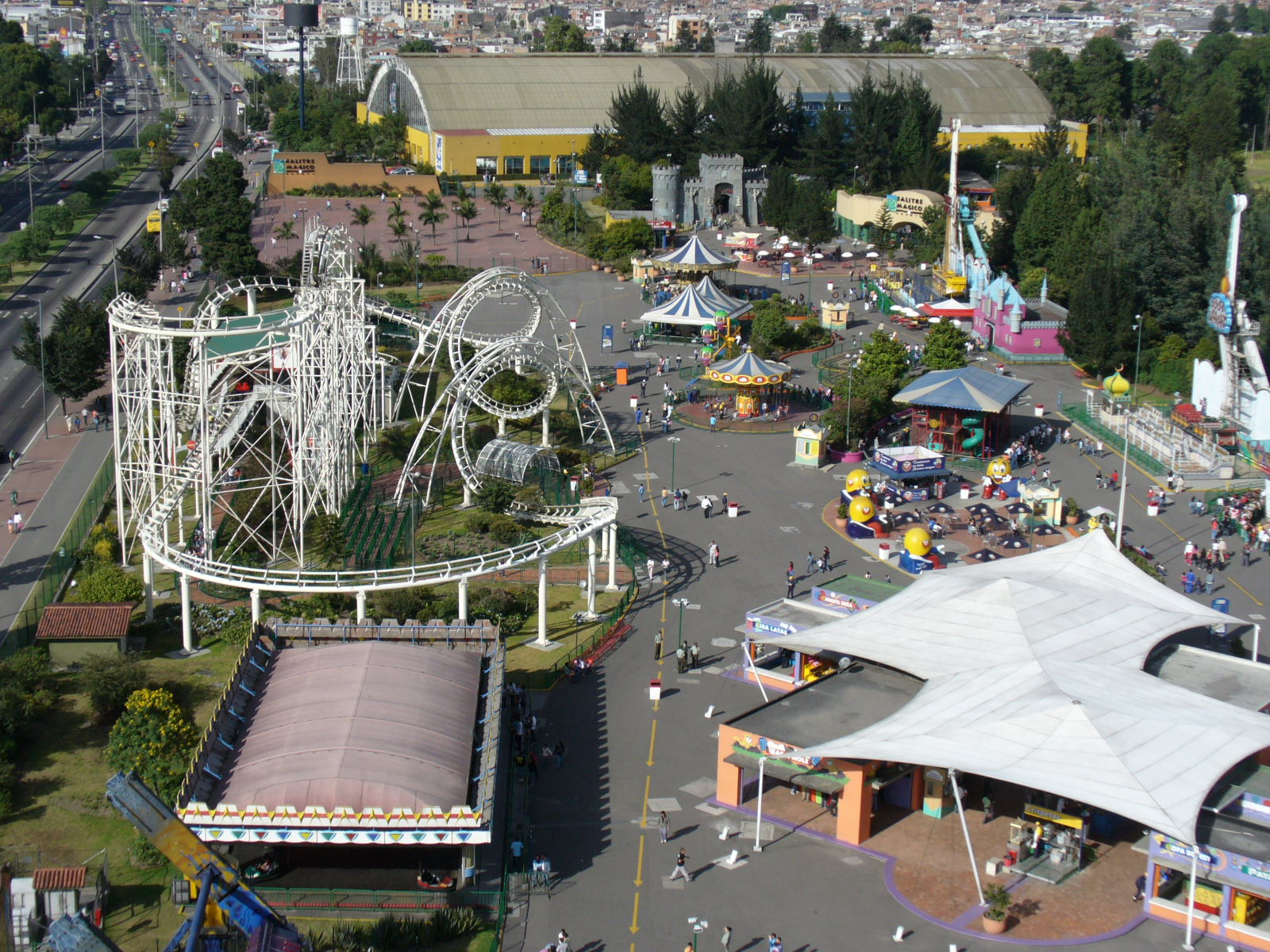 View from the Ferris wheel at Magic Salitre Park in Bogota , Colombia